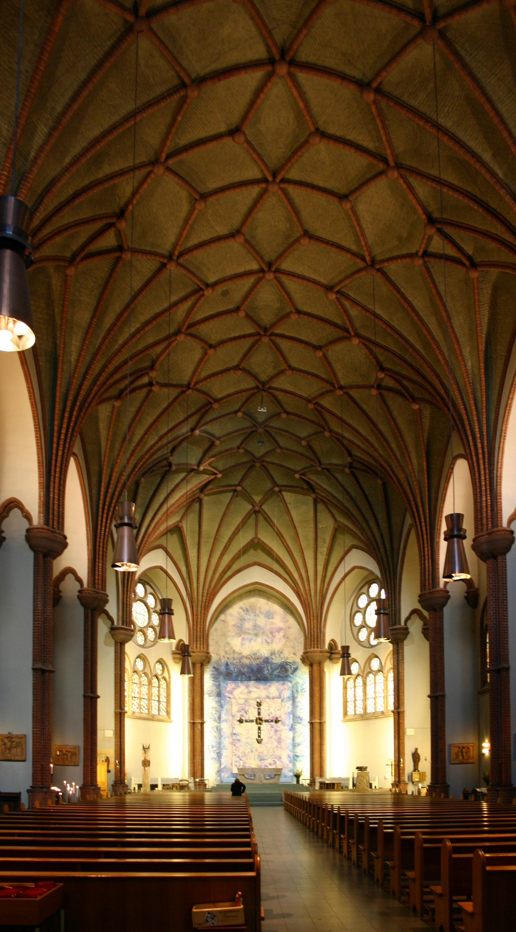 Inside view of St Boniface in Berlin-Kreuzberg.